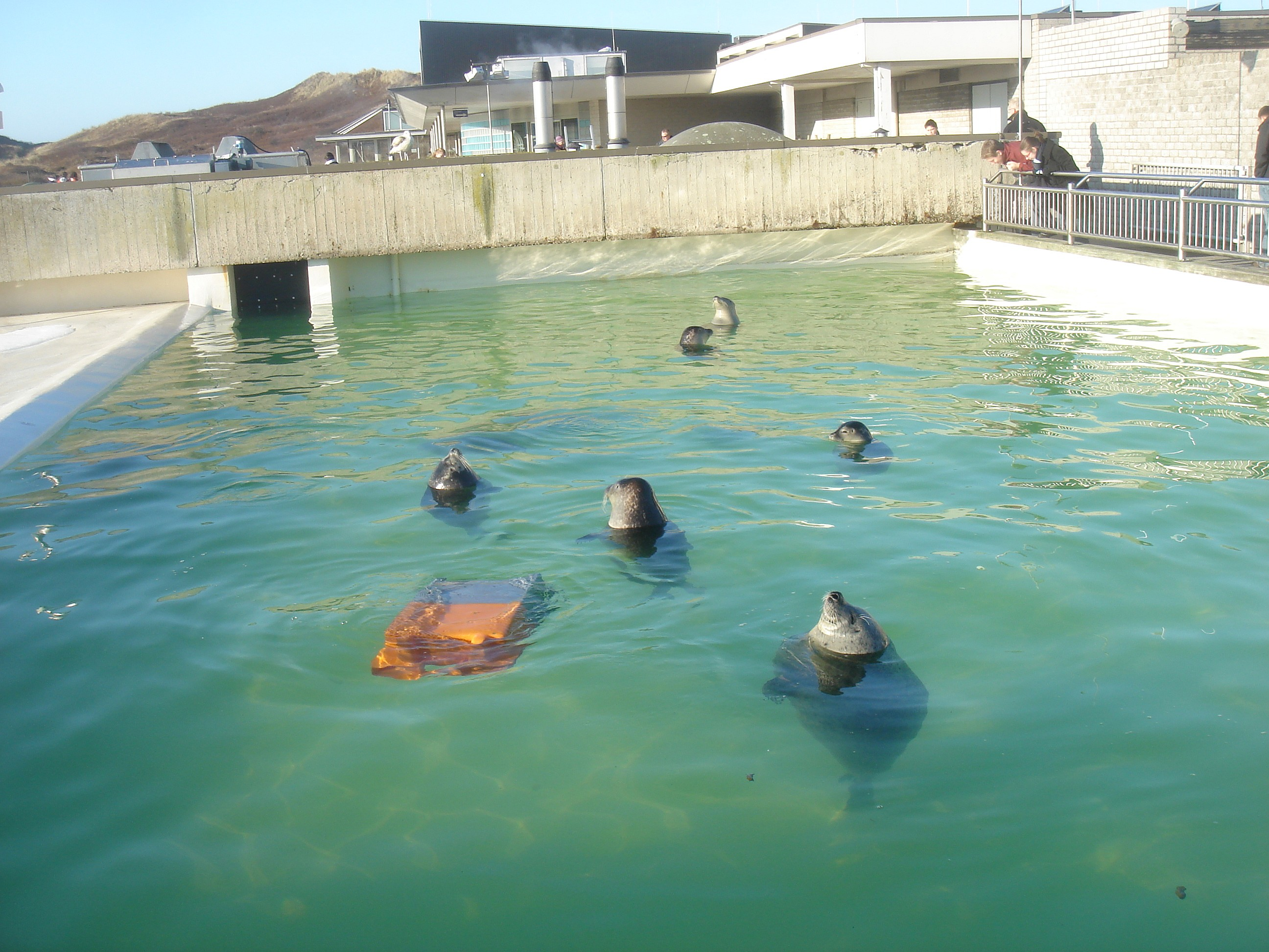 Some seals swimming in a bassin of Ecomare, Texel, Netherlands.